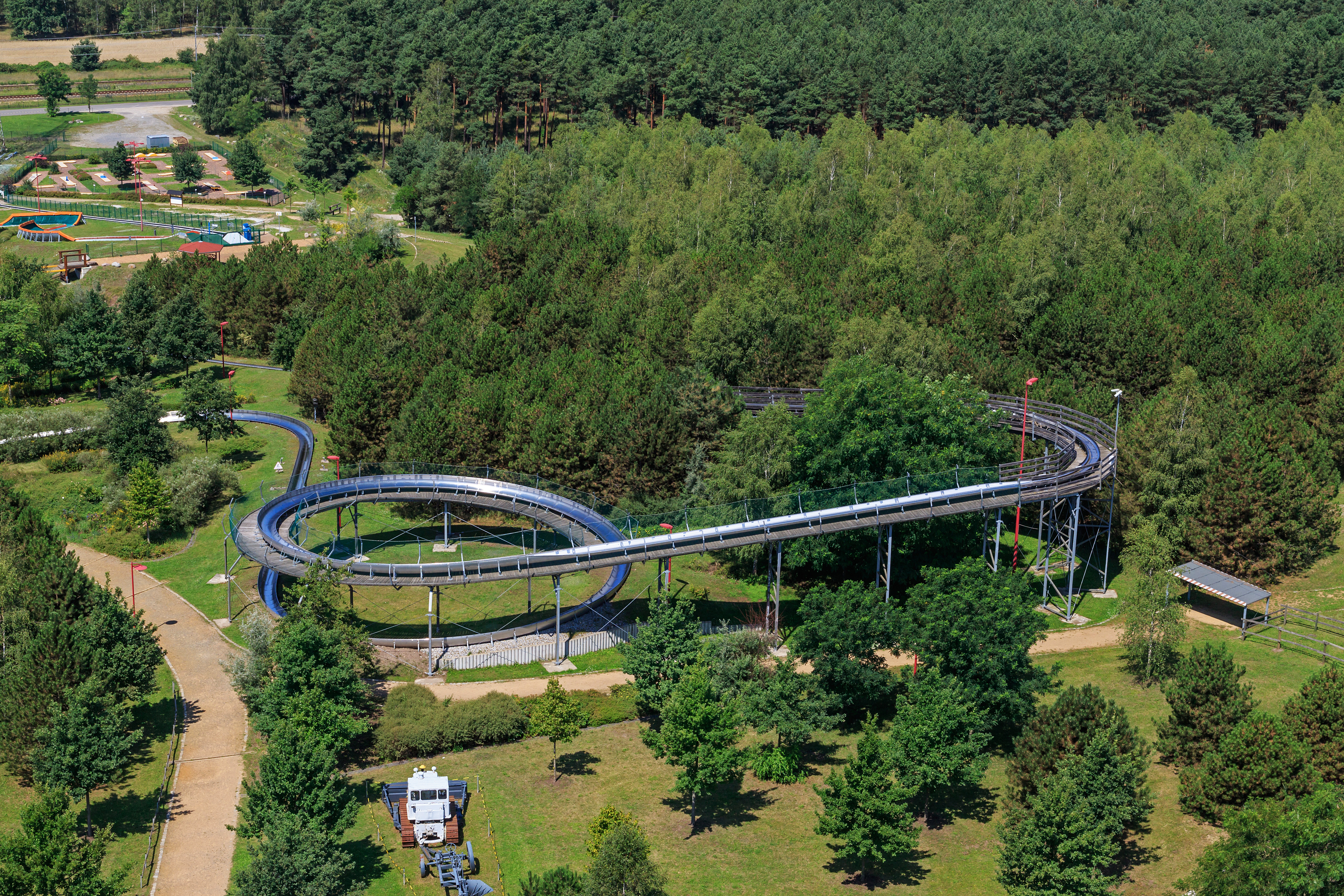 Teichland amusement park near Cottbus (Germany)